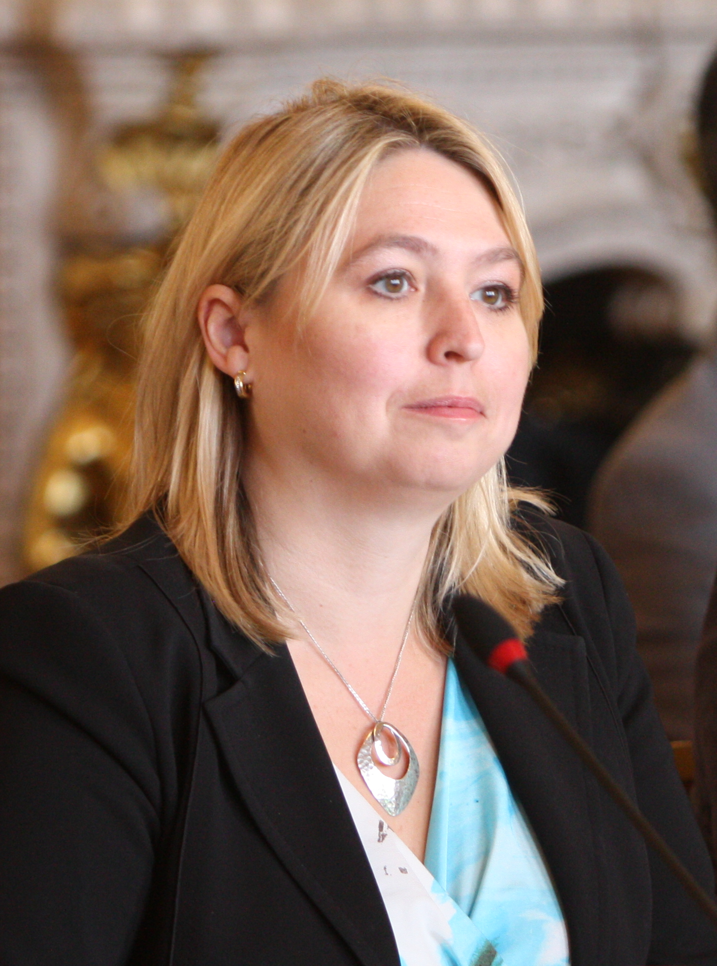 Karen Bradley MP at the UK-Caribbean Ministerial Forum in London, 17 June 2014.